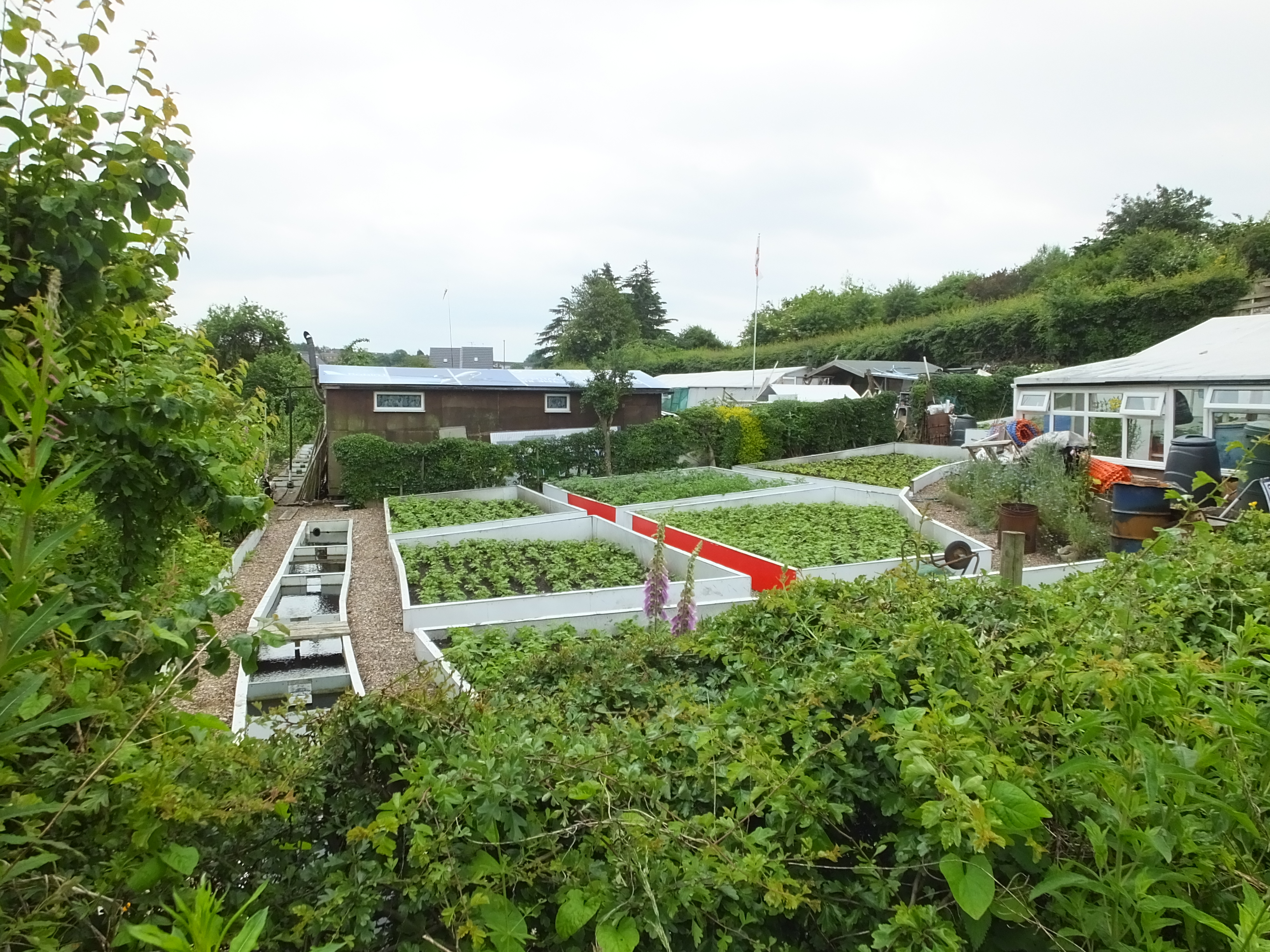 St Ann's Community Orchard, Nottingham, is part of the St Ann's allotments (geotags approximate! )